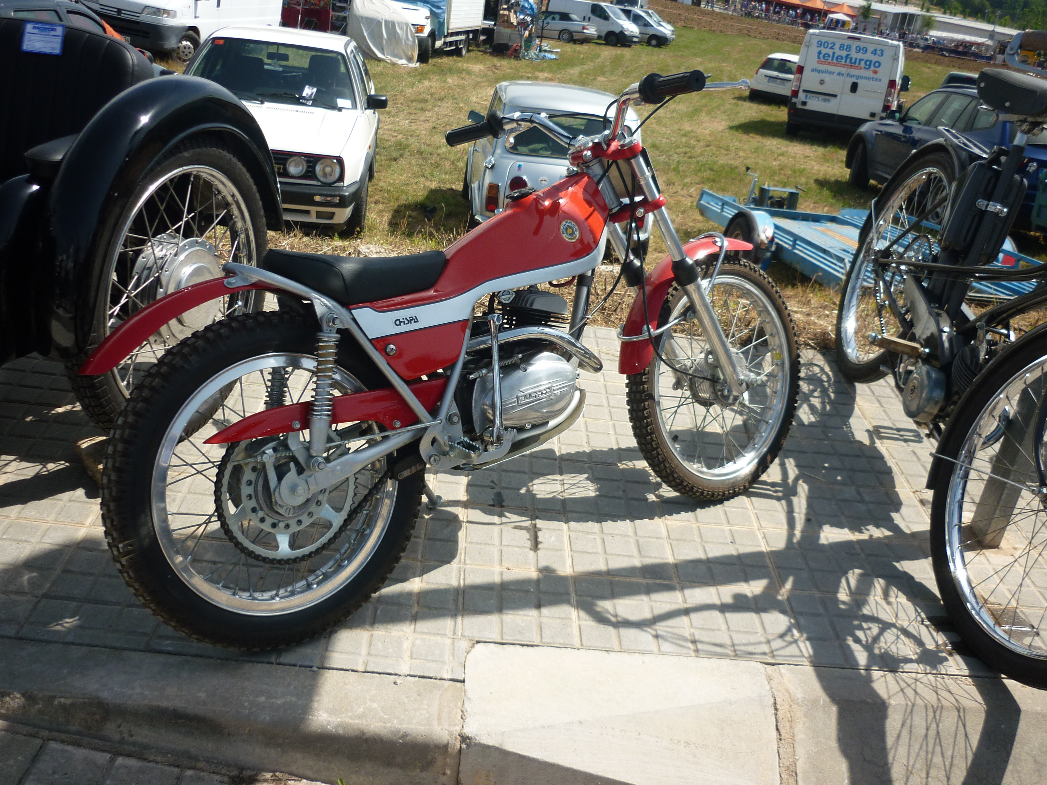 Bultaco Chispa 50, 1974